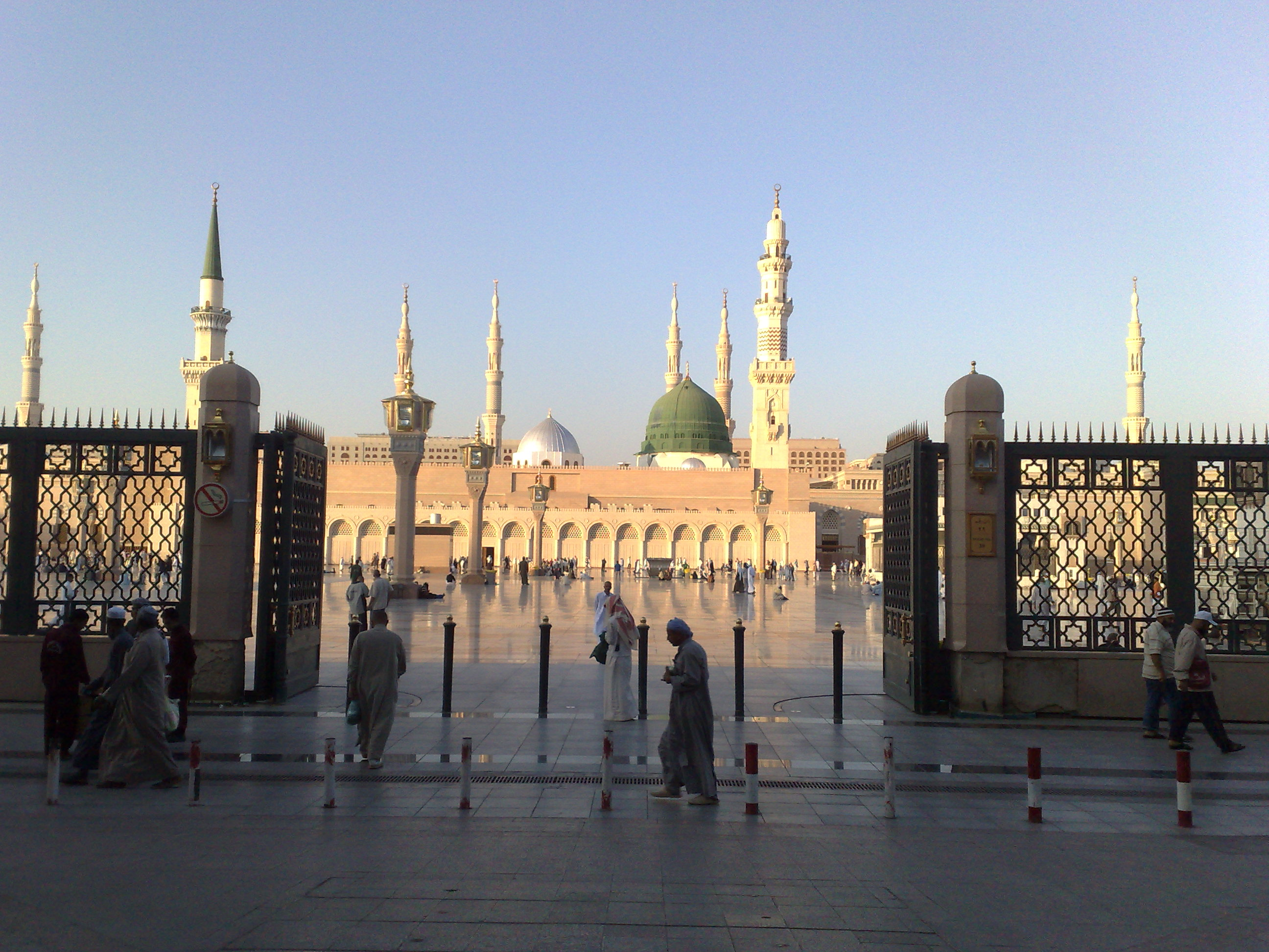 Al-Masjid al-Nabawi